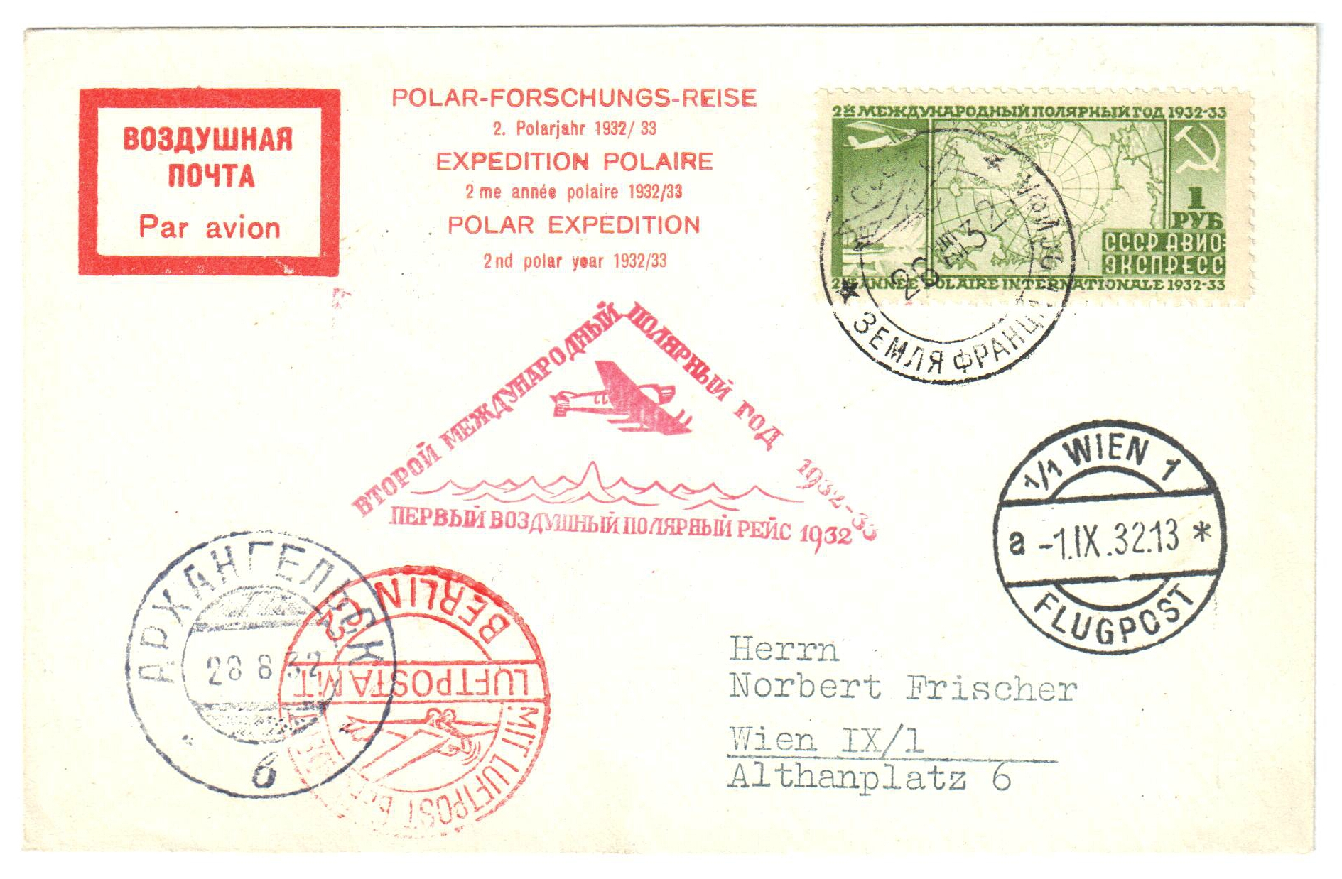 USSR 1932-08-26 Polar expedition cover intended for usage for the first polar aircraft flight in 1932 from Franz Josef Land to Arkhangelsk within the framework of the 2nd International Polar Year. The red triangular cachet was dedicated to this event. The flight however did not take place and all covers were brought to Arkhangelsk and postmarked with the transit marking 'Архангельск 28-8-32'. Catalogue: Mi. 411.